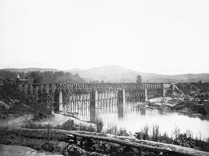 Accession Number: 1979:0022:0037 Maker: H. Goldsticker (American, active ca. 1865) Title: Railroad Bridge across Etowah River, Ga. Date: ca. 1865 Medium: albumen print Dimensions: 24.8 x 32.9 cm. George Eastman House Collection · ·